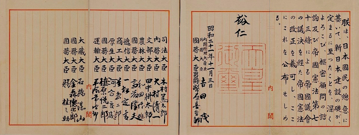 The original copy of Constitution of Japan (r-l, "The Emperor's Words," "The Imperial Signature and Seal," "Countersignatures by the Cabinet Ministers")